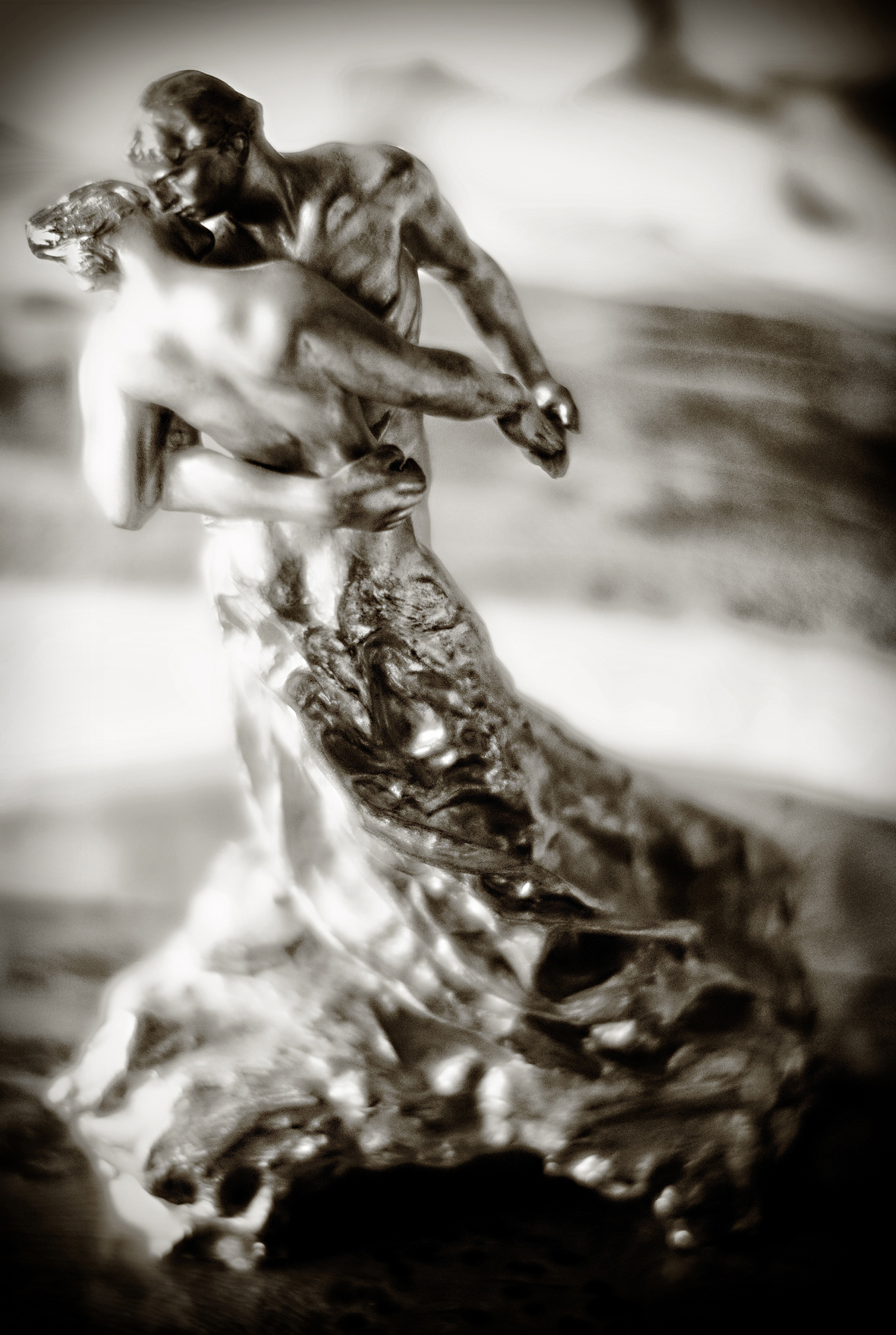 La Valse (The Waltzers): Created by Camille Claudel, protégé, muse and mistress of Rodin. Conceived in 1889 and cast in 1905 with the Foundry Mark "Eugene Blot". This is the first of these casts and is gilded.